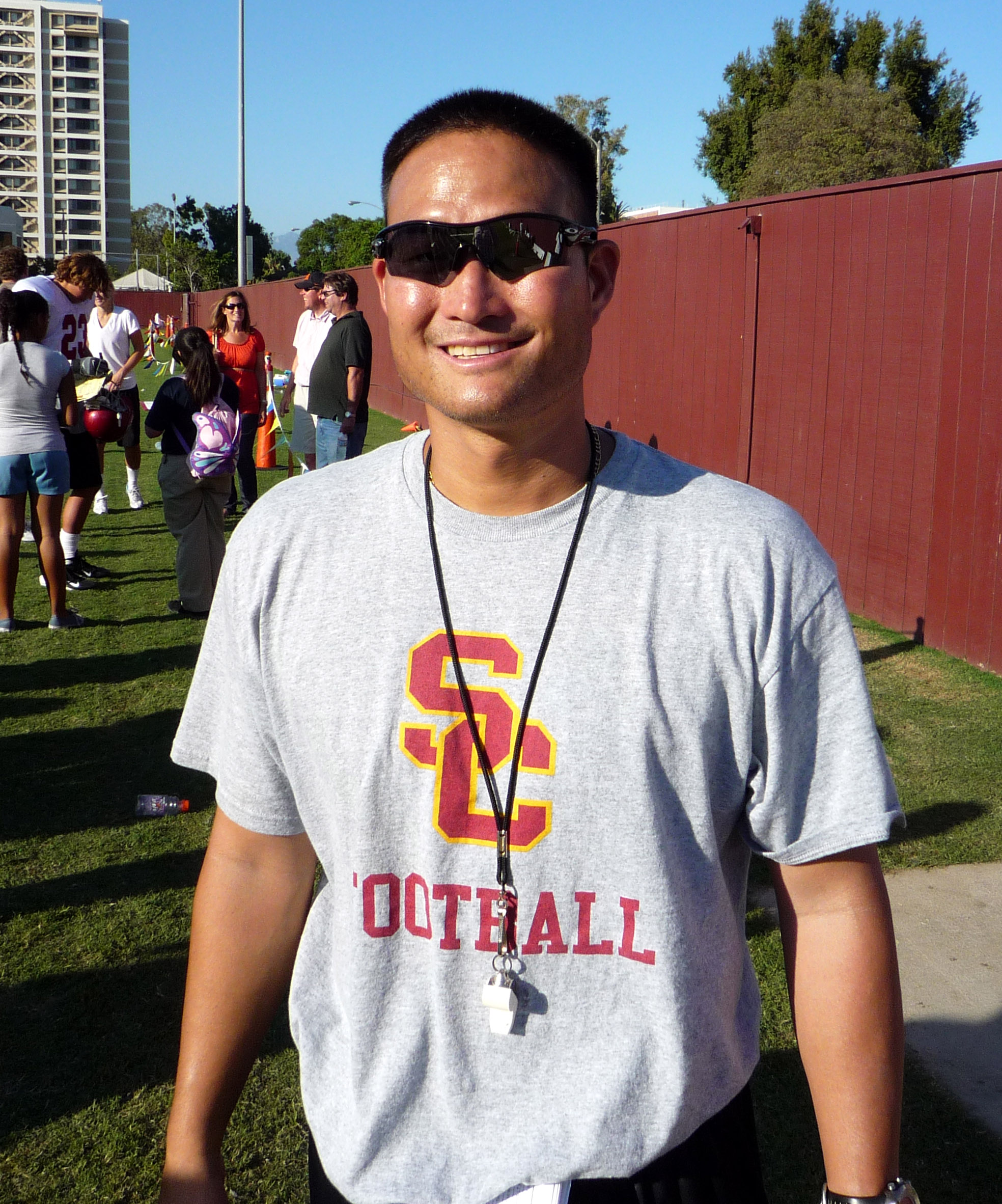 Assistant coach Rocky Seto, after a fall practice preceding the 2008 USC Trojans football season.